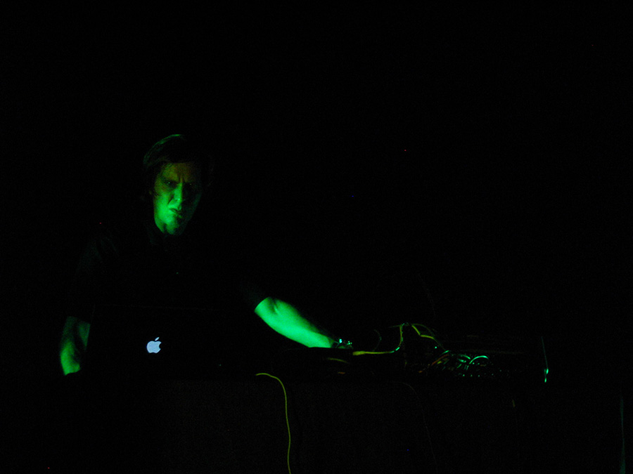 Rome, 2nd of June 2007: Christian Fennesz performing with Mike Patton at Dissonanze Festival.